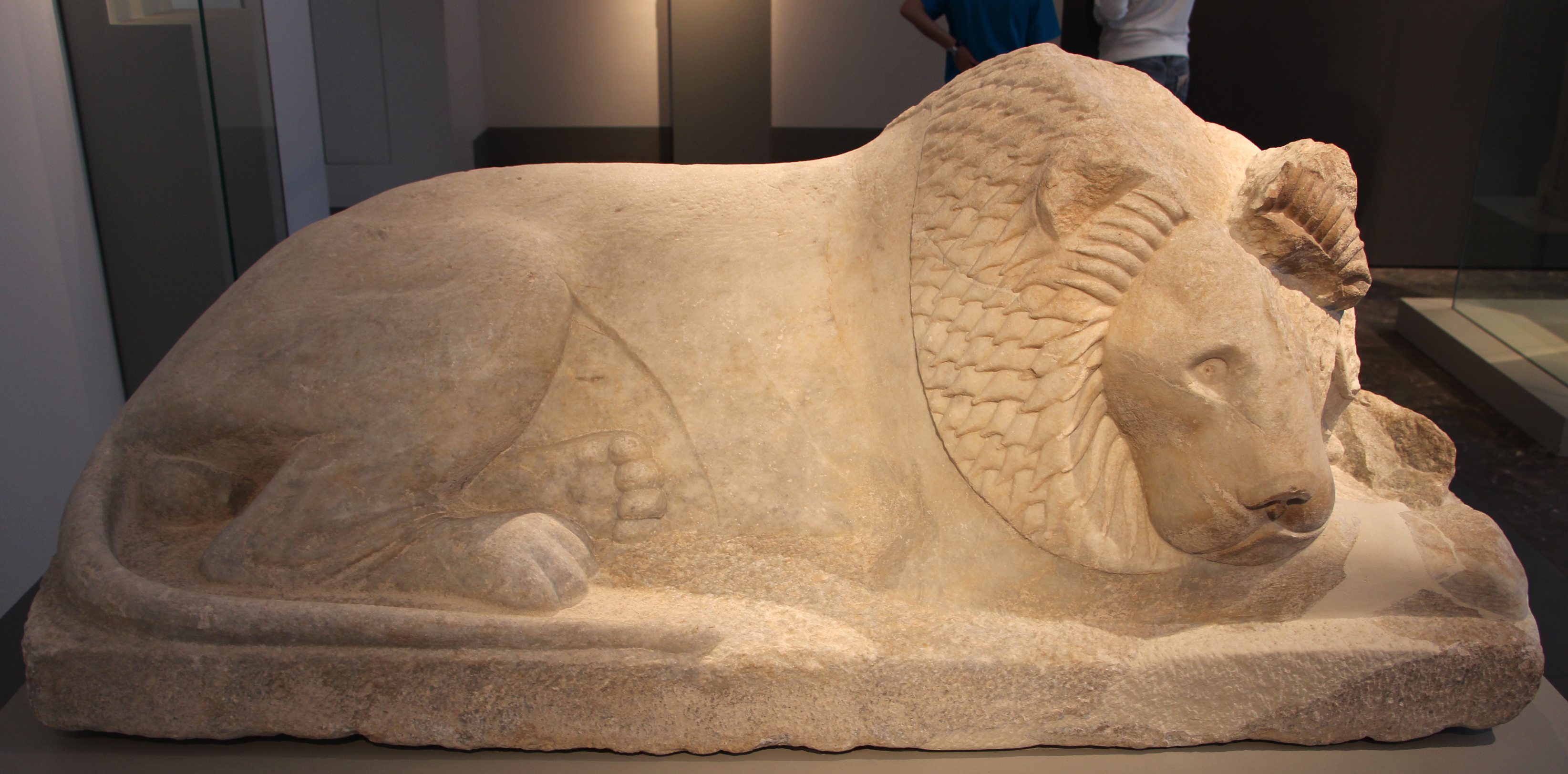 Ancient Greek sculptures in the Antikensammlung Berlin